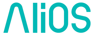 This is a logo owned by Alibaba Group for AliOS Operative System.